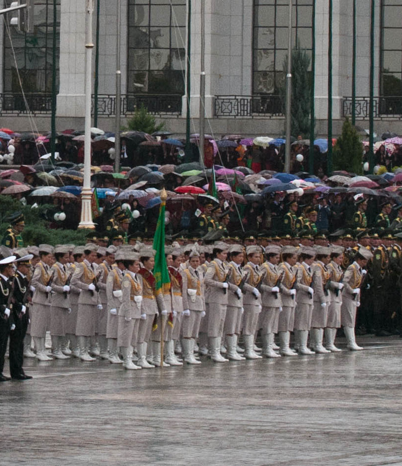 Celebrating the 20th year of independence in Turkmenistan